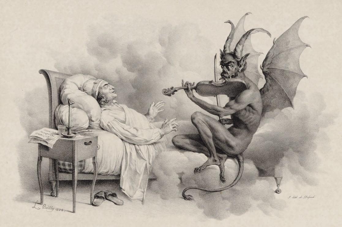 "Tartini's Dream" by Louis-Léopold Boilly (1761-1845). Illustration of the legend behind Giuseppe Tartini's "Devil's Trill Sonata".